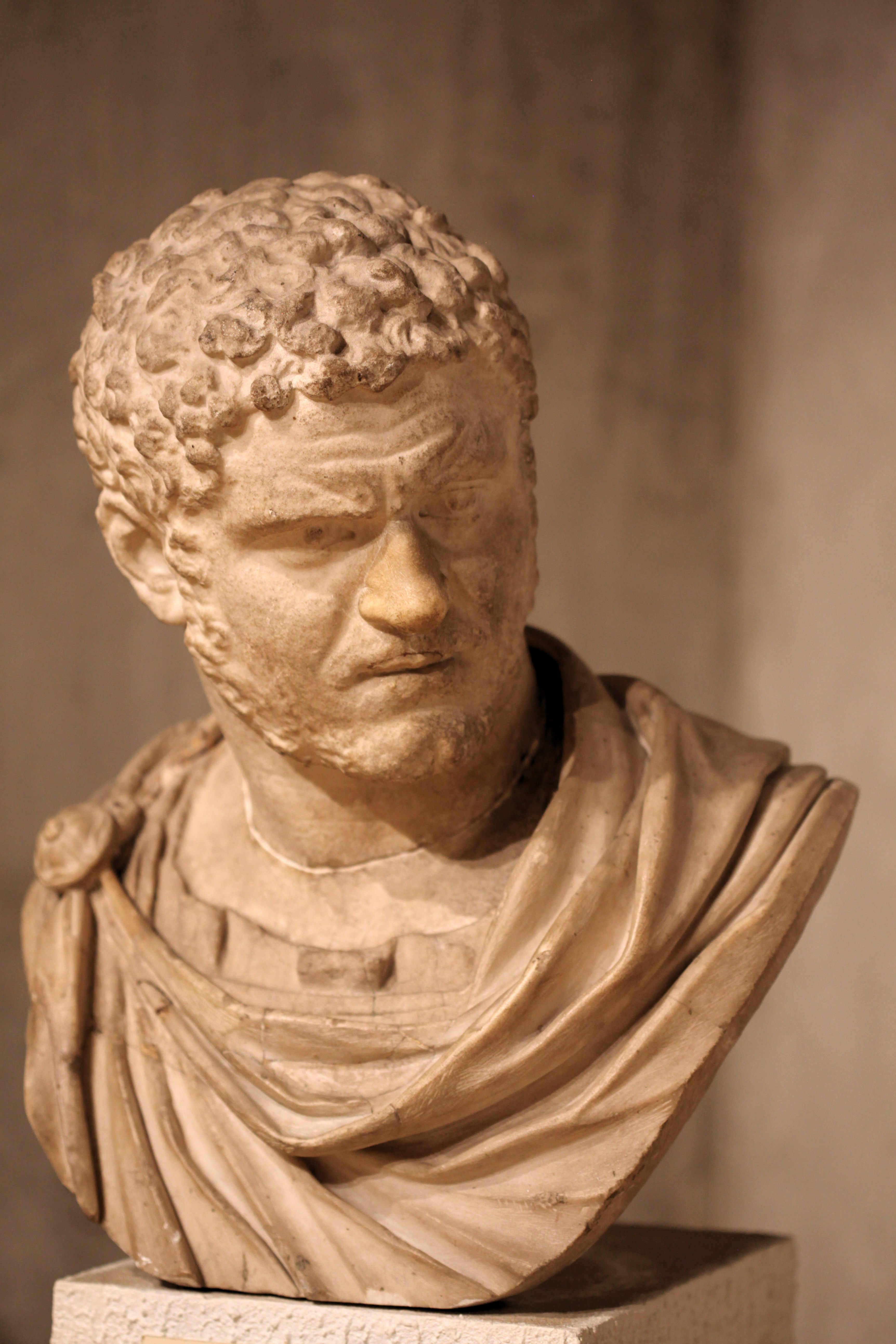 Bust of Emperor Caracalla. Marble. Sent by the State (Musée du Louvre). On display at the Musée gallo-romain de Fourvière, Lyon.